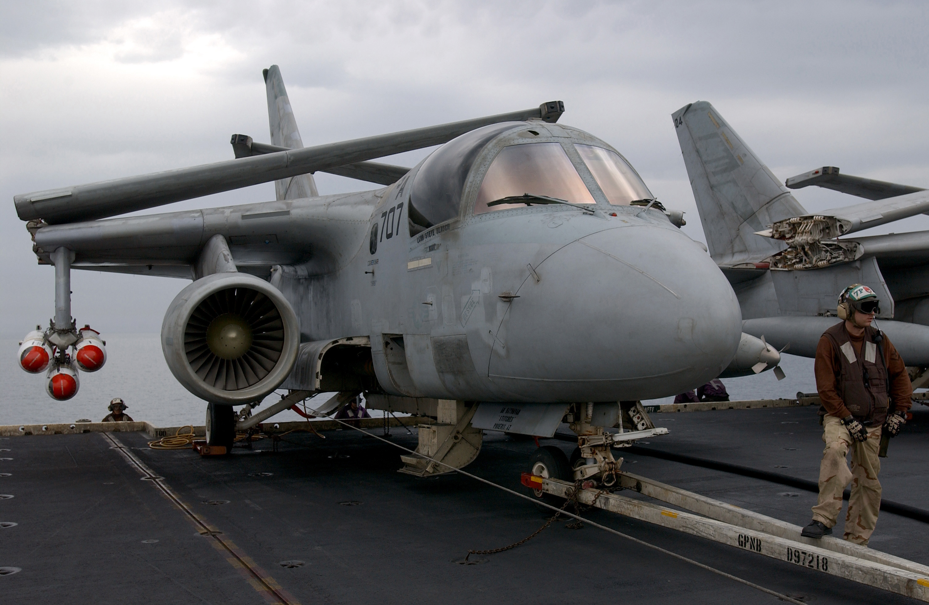 A Plane Captain assigned to the "Fighting Redtails" of Sea Control Squadron Twenty One (VS-21) secures his S-3B "Viking" loaded with CBU-99 antitank cluster bombs just prior to flight operations aboard USS Kitty Hawk (CV 63).